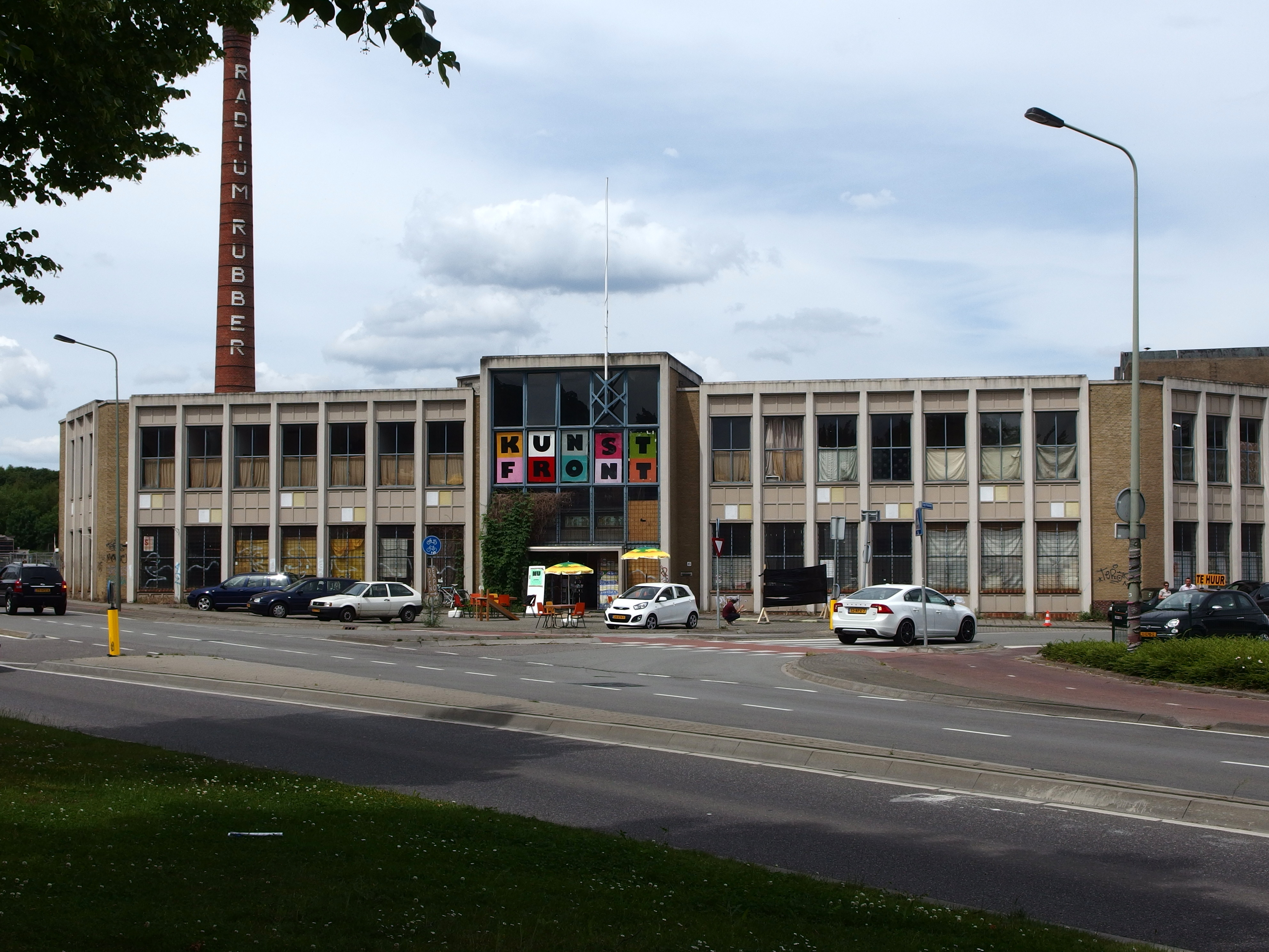 20140525 in Maastricht: Radium Factory.